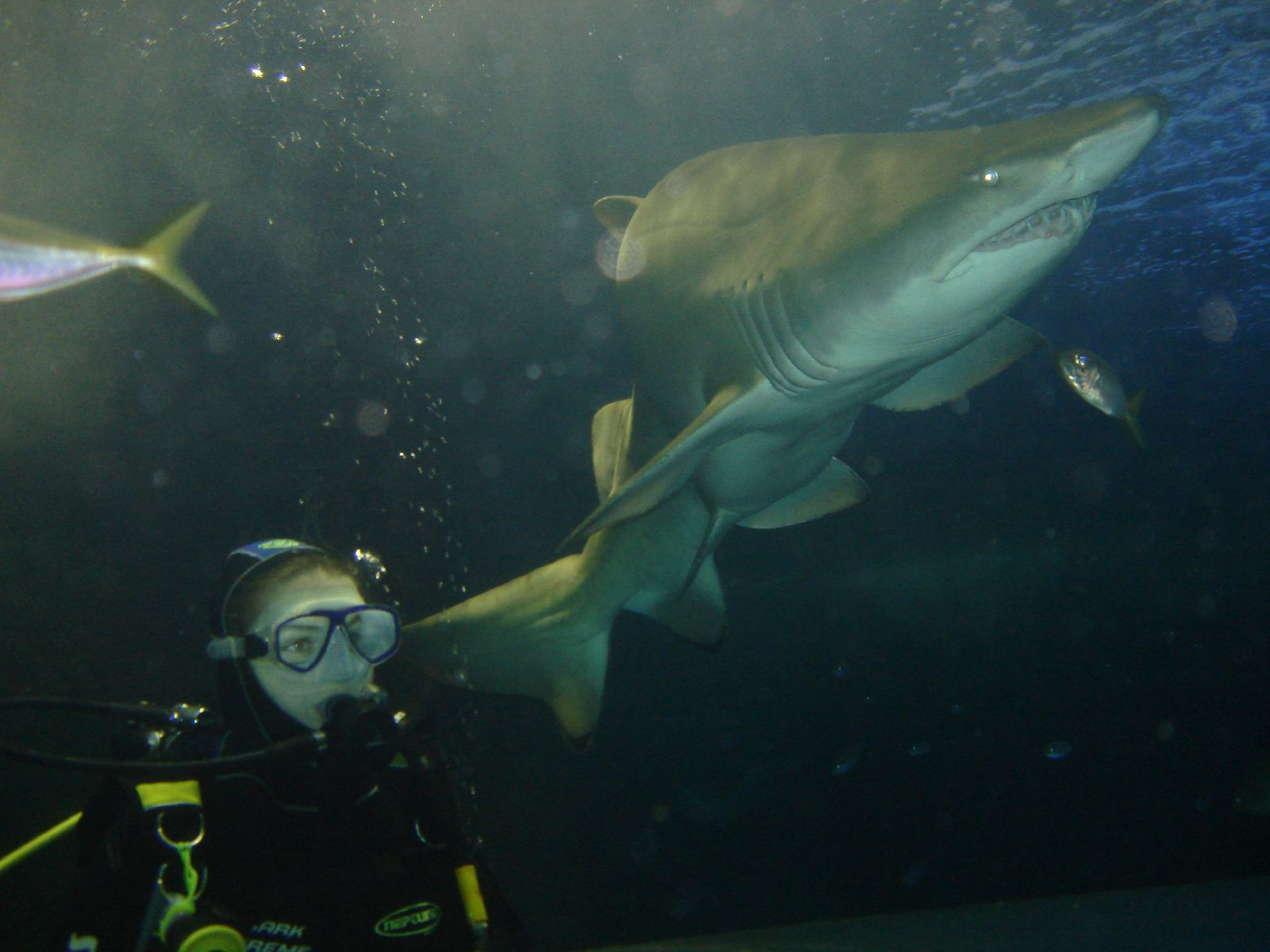 Photos from Oceanworld, Manly.. more to come I hope Went swimming with fishies!! Was loooots of fun!!!! Not scary at all, but a bit cold! She is a grey nurse shark, predicted to become extinct from their homeland of eastern Australian waters within 15 years. Her back may look a little odd, apparantly sharks can get scoliosis too..